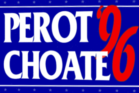 Logo of Ross Perot 1996 presidential campaign